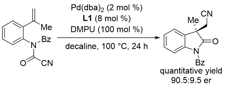 Enantioselective intramolecular alkene cyanoamidation reaction scheme